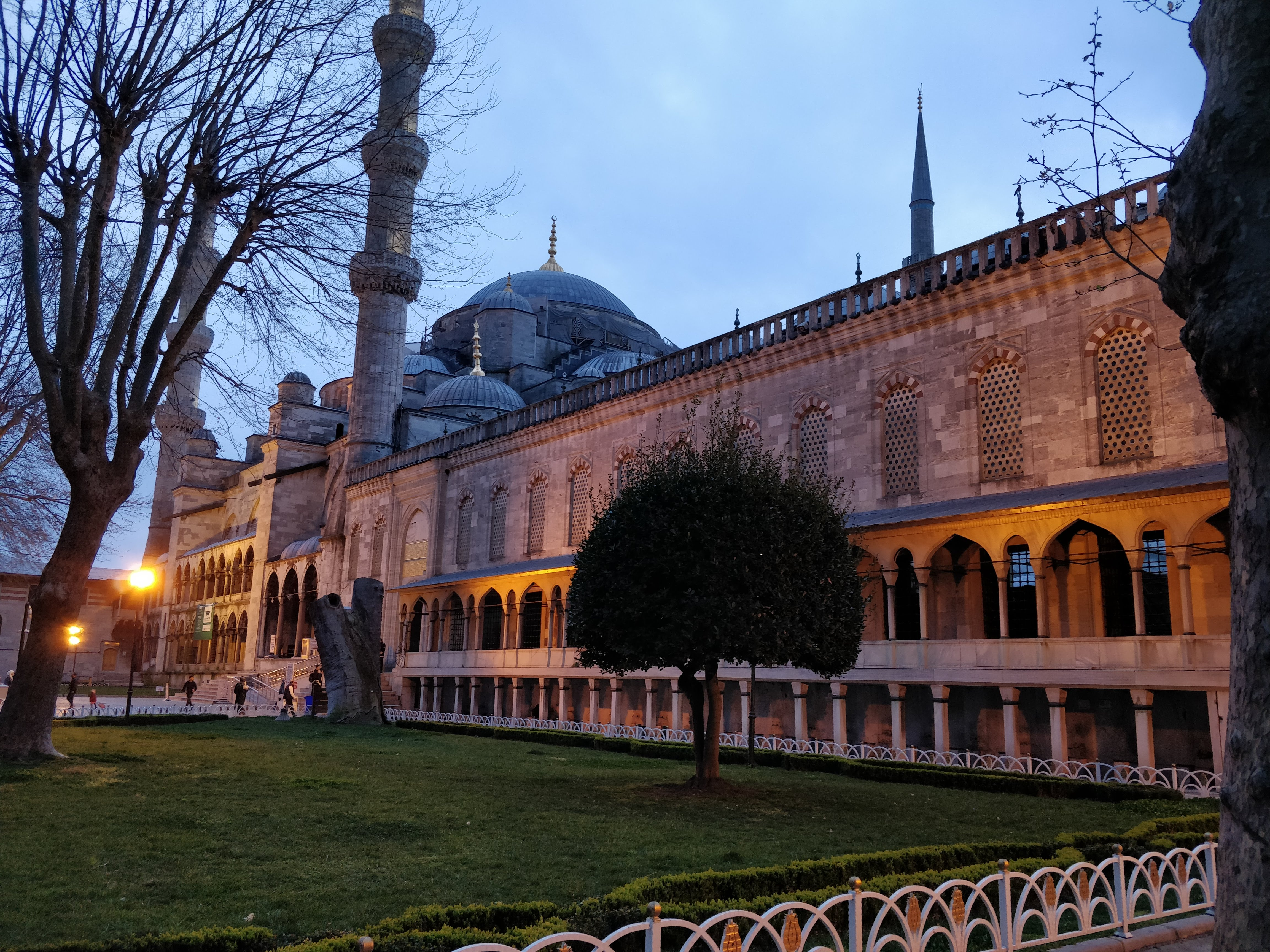 Blue Mosque During Evening